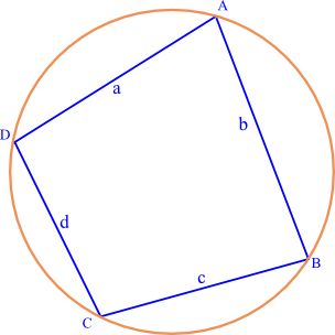 cyclic quadrilateral with its sides a, b, c and d ភាសាខ្មែរ: ចតុកោណចារឹកក្នុងរង្វង់​​ដែលមានរង្វាស់ជ្រុងរៀងគ្នា a b c និង d